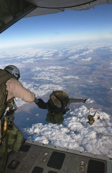 Team operators of the Marine Corps's 1st Force Reconnaissance Company jump from the back of a C-130.